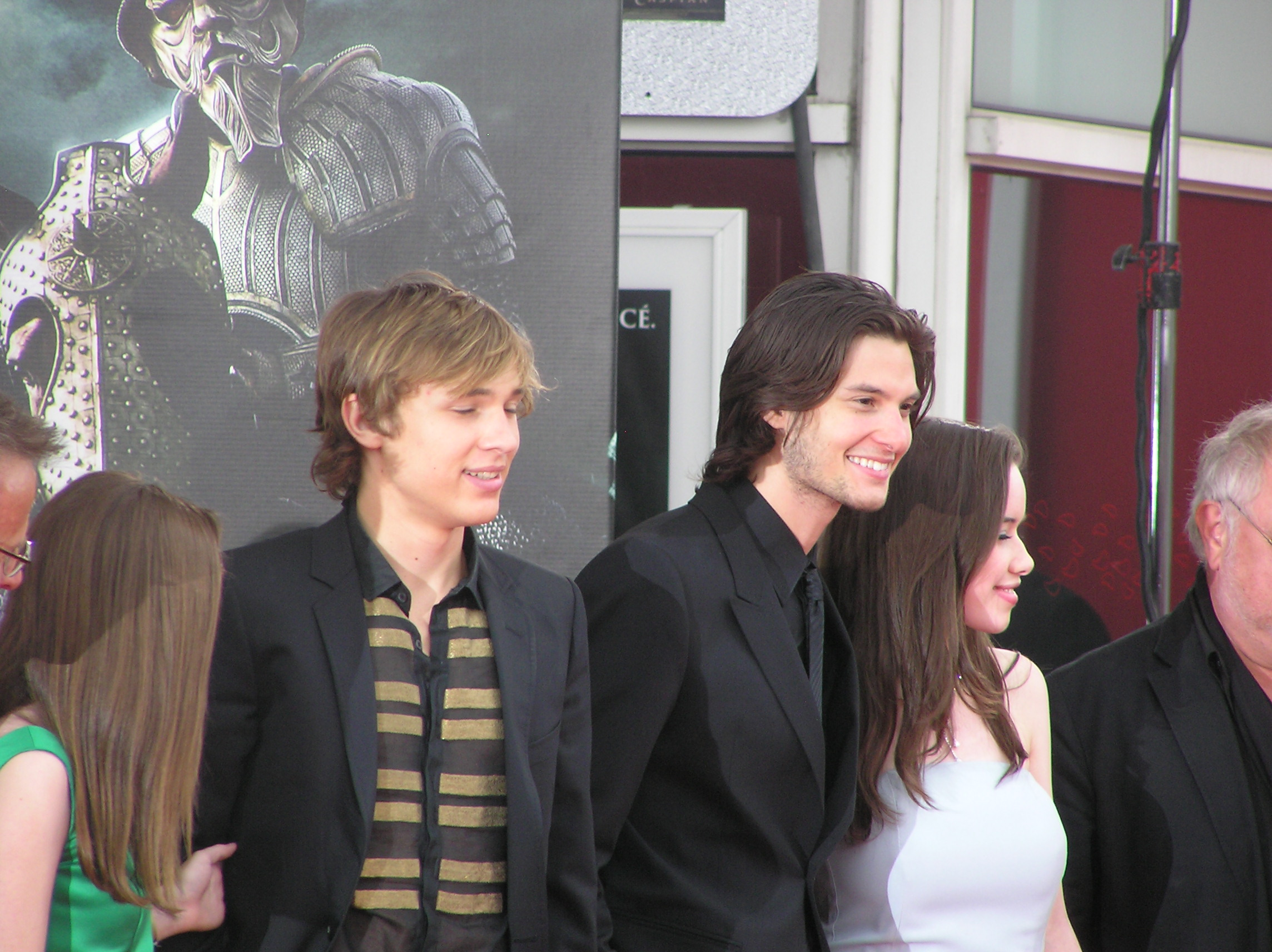 William Moseley, Ben Barnes & Anna Popplewell at the french premiere of The Chronicles of Narnia: Prince Caspian (21.06.2008)